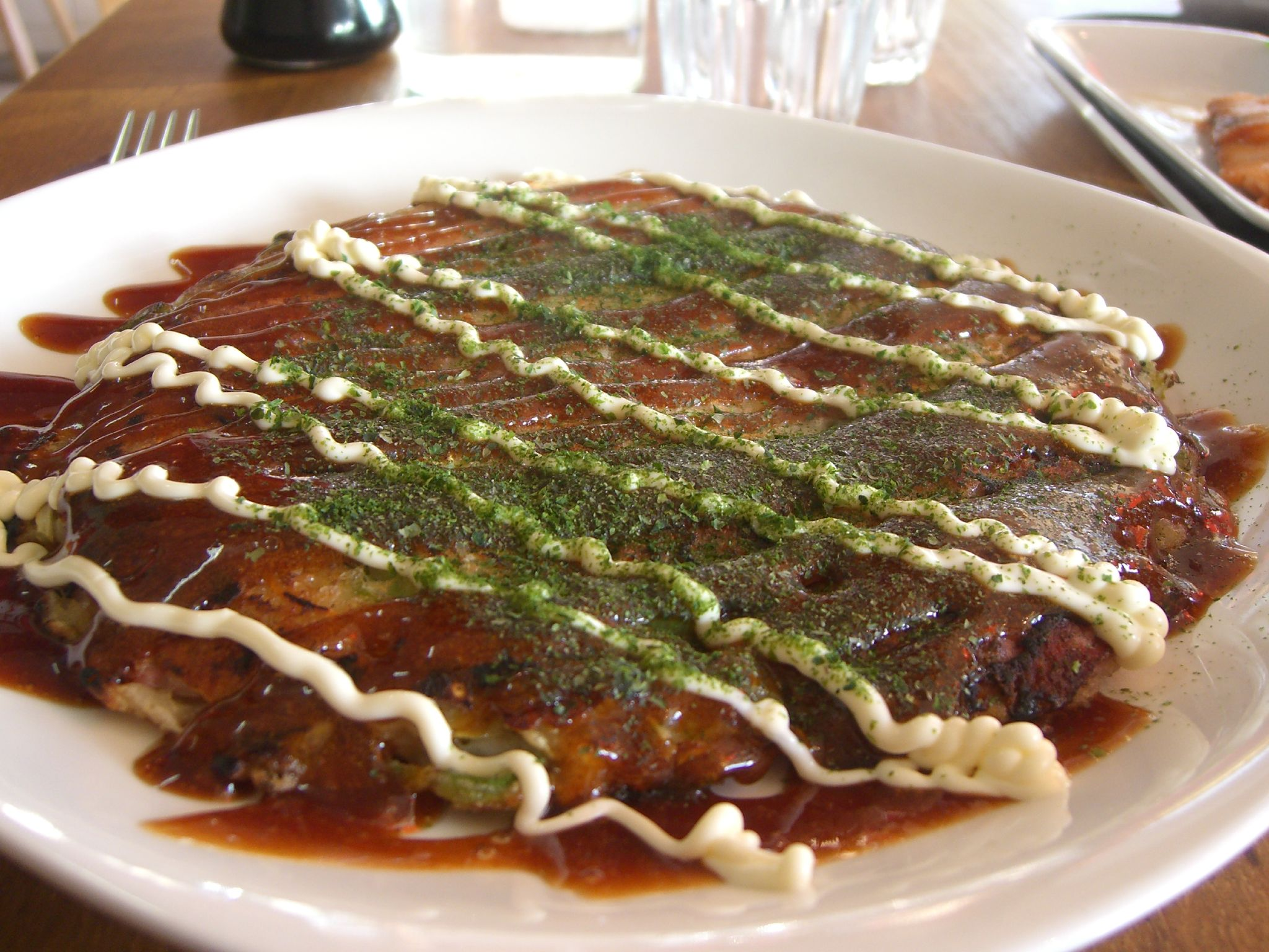 Bacon and cheese okonomiyaki - Okonomiyaki is a Japanese savoury pancake containing a variety of ingredients. The name is derived from the word okonomi, meaning "what you like" or "what you want", and yaki meaning "grilled" or "cooked."